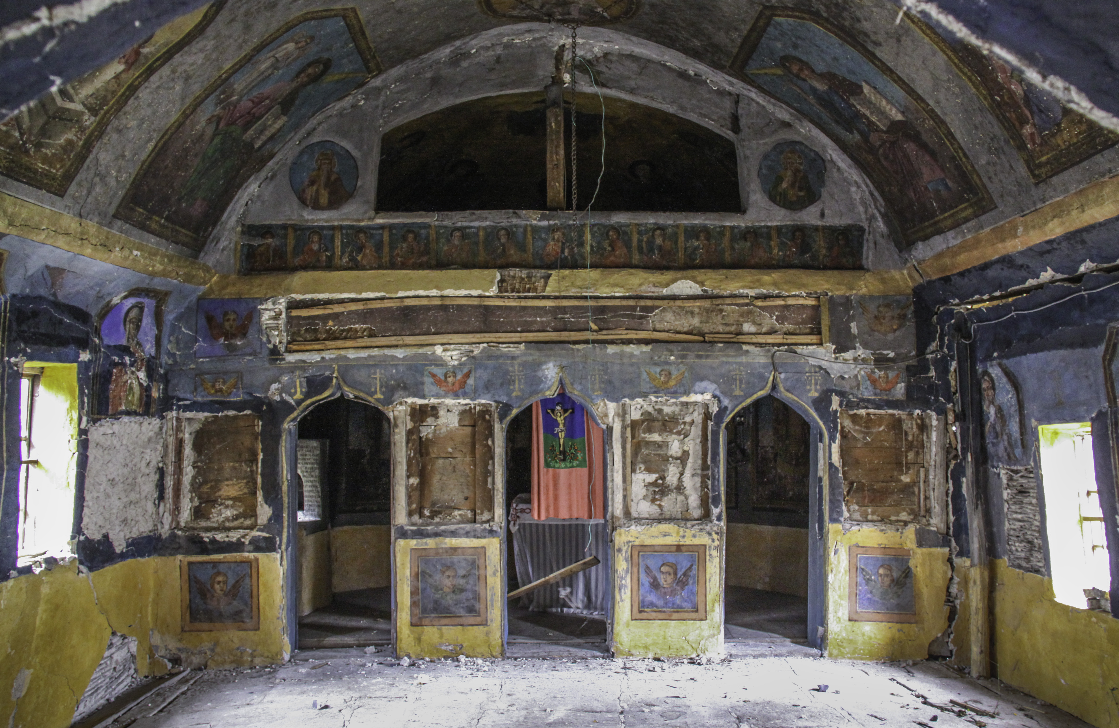 Moșteni-Greci, Argeș, Romania: the wooden church.